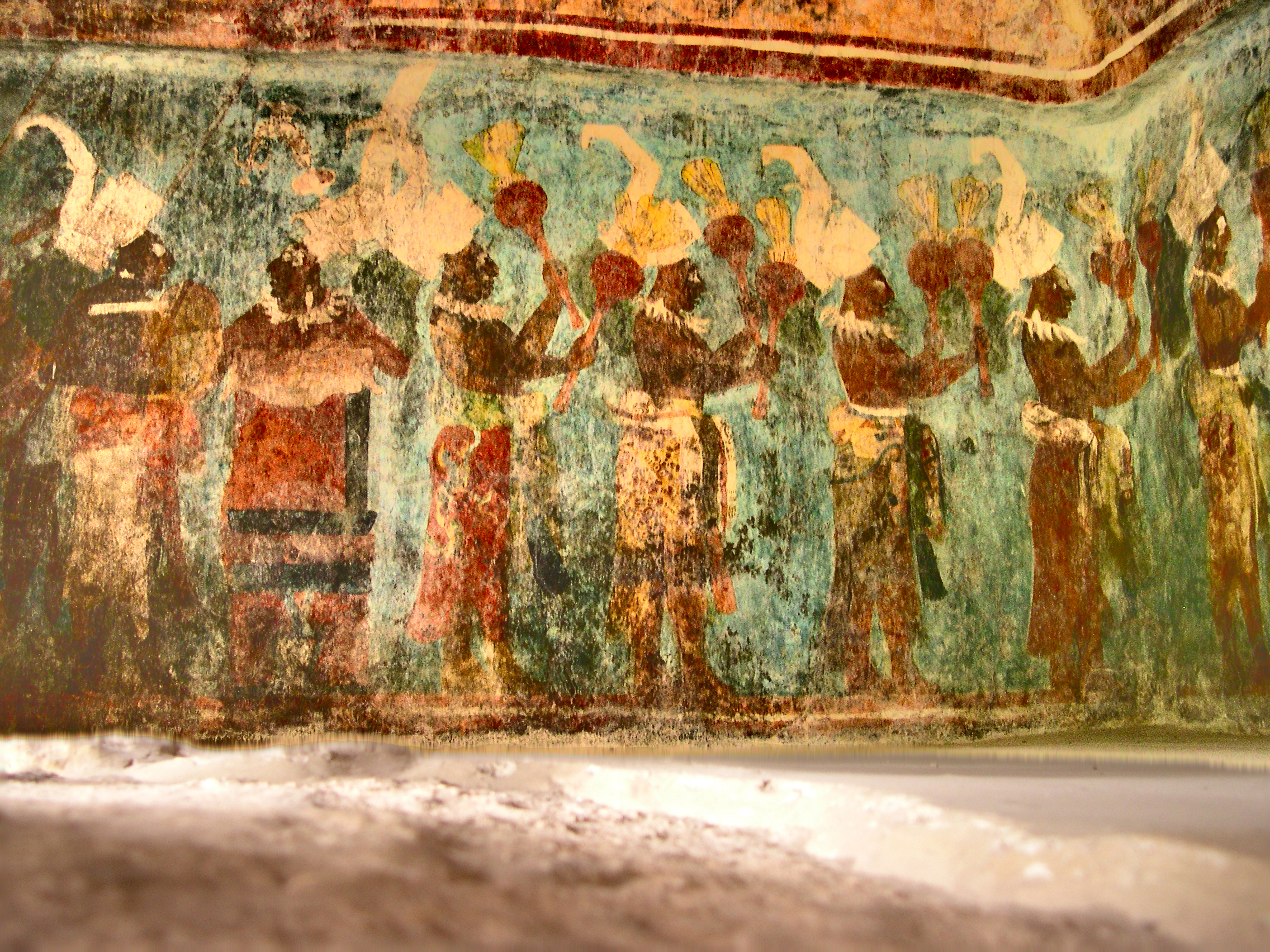 A picture of one of the paintings at Bonampak